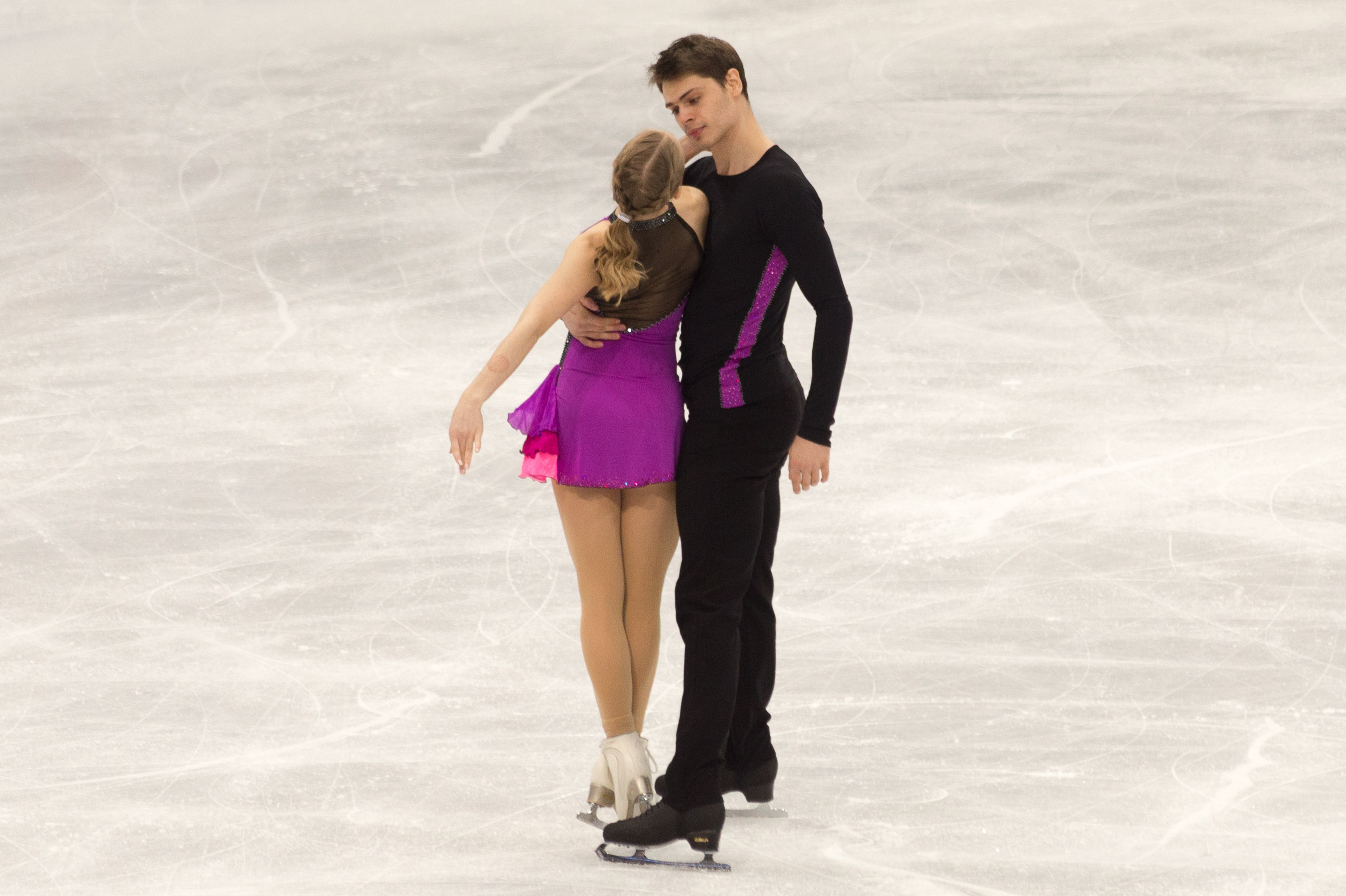 Minerva Fabienne Hase/Nolan Seegert (GER) hold the opening pose in their short program at the 2017 World Figure Skating Championships